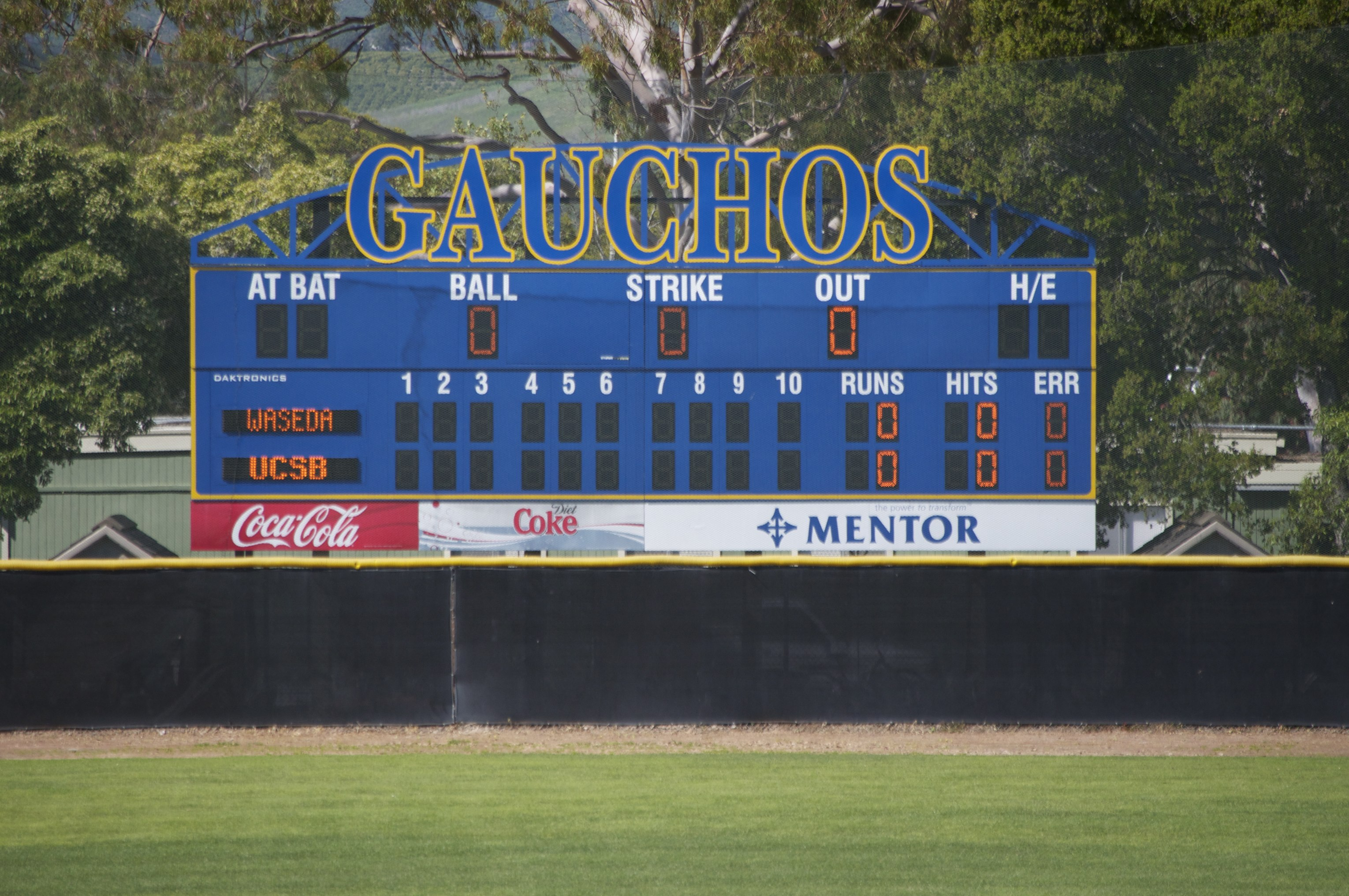 Caesar Uyesaka Stadium scoreboard prior to an exhibition baseball game between the UC Santa Barbara Gauchos and Waseda University baseball teams on March 8, 2010.